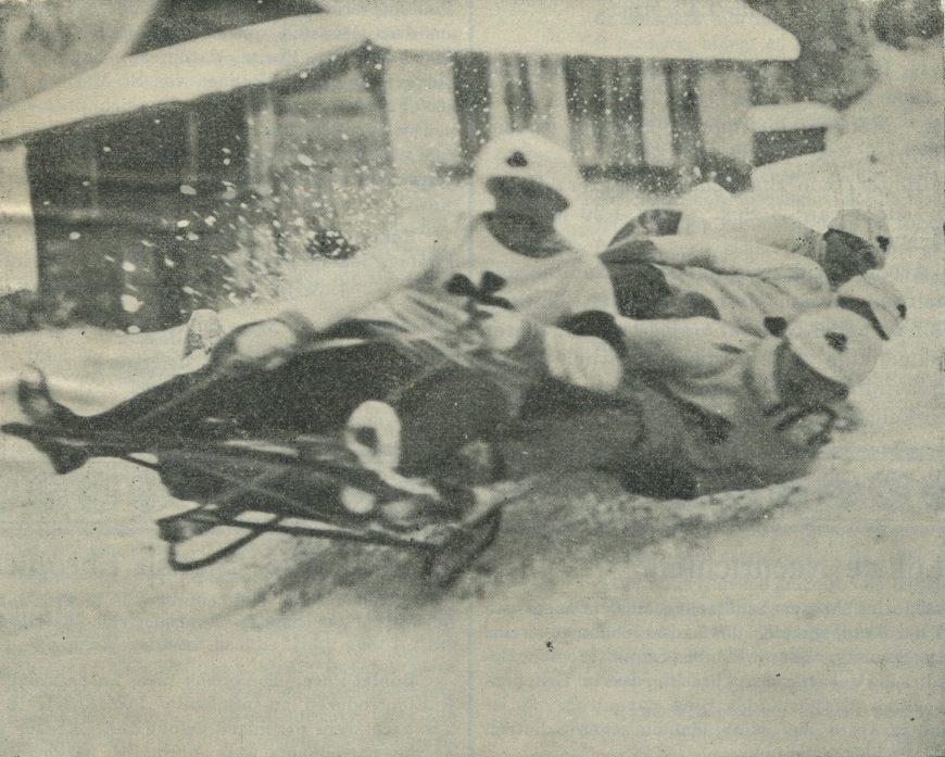 race on bobsleigh and luge run Arosa, Switzerland